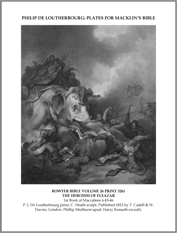 An engraved plate in the Macklin Bible (Cadell & Davies edition of the Apocrypha) after a specially-commissioned painting by Philippe De Loutherbourg. Photographed from the Bowyer bible, Bolton, England. Bowyer Bible 26.3261. The Heroism of Eleazar. During a battle, an elephant carrying soldiers fallen to the ground, a horse rider beside attacked by a soldier with a dagger at right (1st Book of Maccabees 6:43-46). 1815. Inscriptions: Lettered below image with title, text reference, production detail: "P. J. De Loutherbourg Pinxt.", "C. Heath Sculpt." and publication line: "London, Published June 1 1815, by T. Cadell & W. Davies Strand". Print made by Charles Heath. Dimensions: Height: 480 millimetres; width: 384 millimetres.